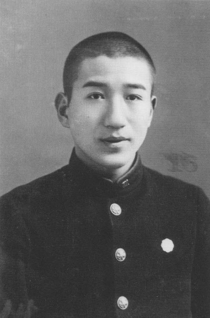 High school yearbook photo of Japanese author Osamu Dazai (1909-1948) discovered by staff at Hirosaki University in May 2009.